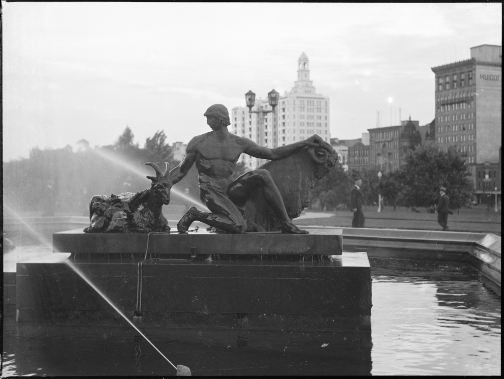 A photo from the Tom Lennon Photographic Collection from the Powerhouse Museum.